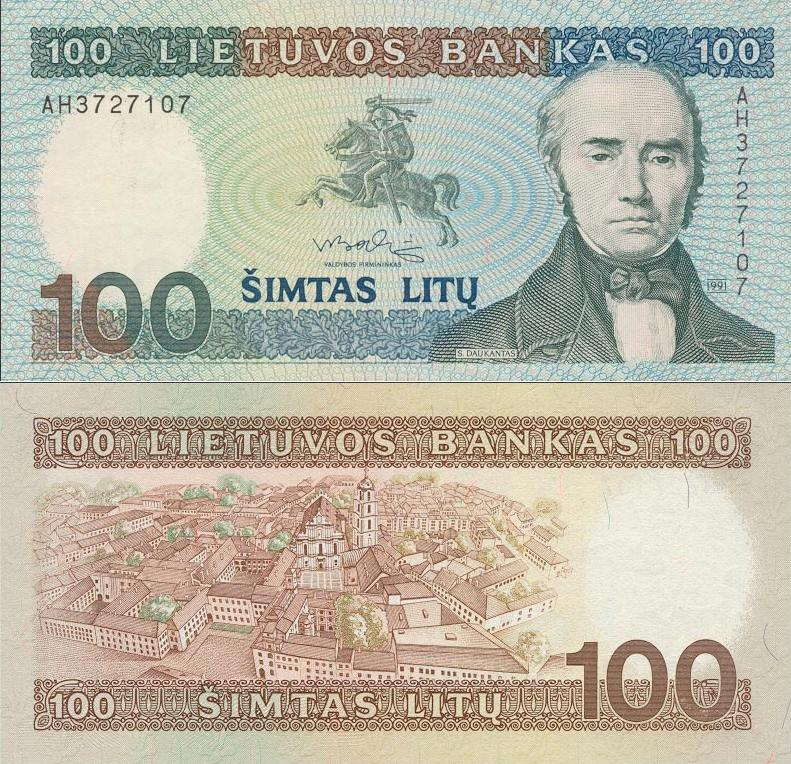 100 litai banknote printed in 1991 (1992?) and released to the public in 1993. It circulated (unlike other banknotes printed in 1991) and was replaced in 2000.